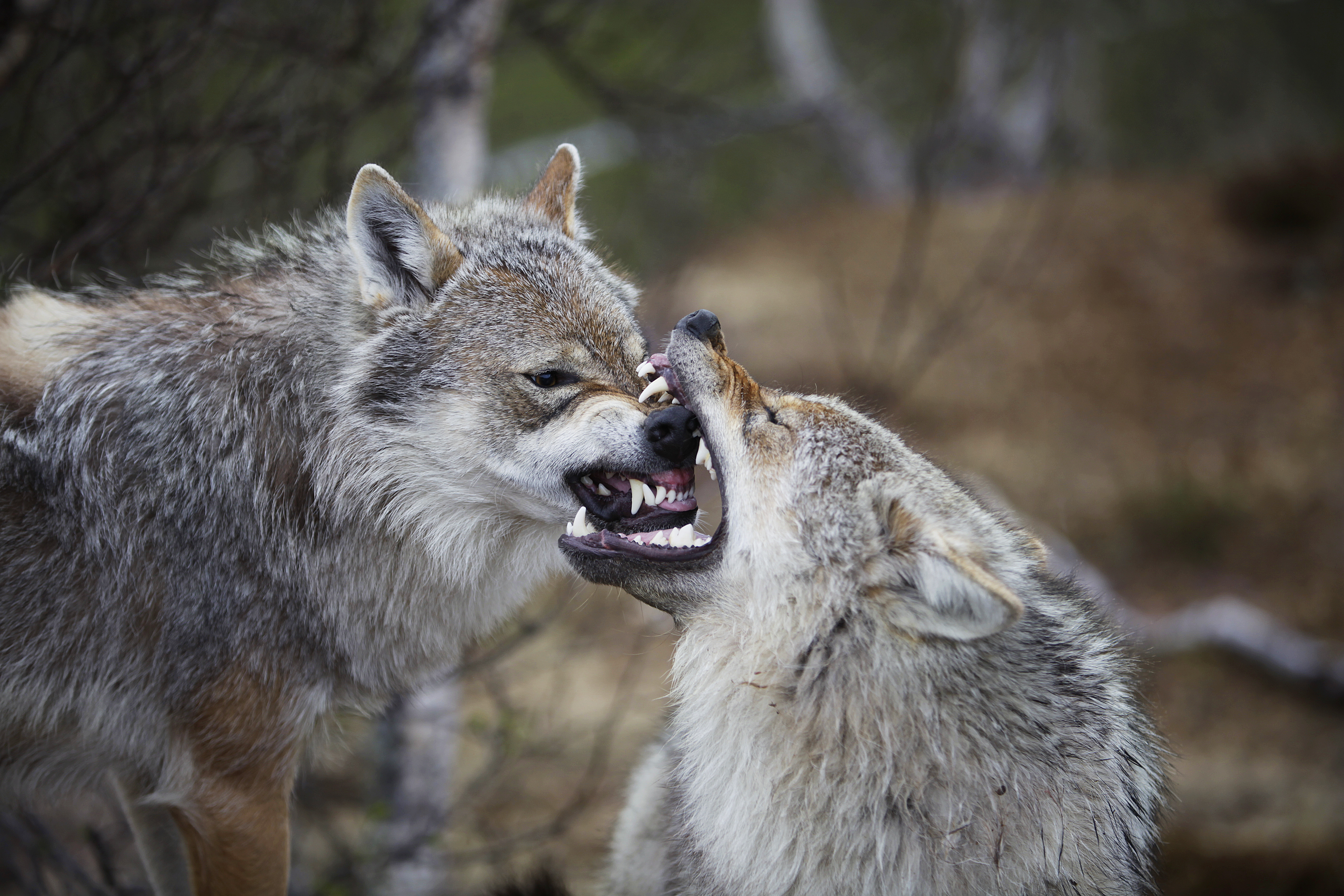 Wolves (Canis lupus lupus) at Polar Zoo in municipality of Bardu, Troms County, Norway.